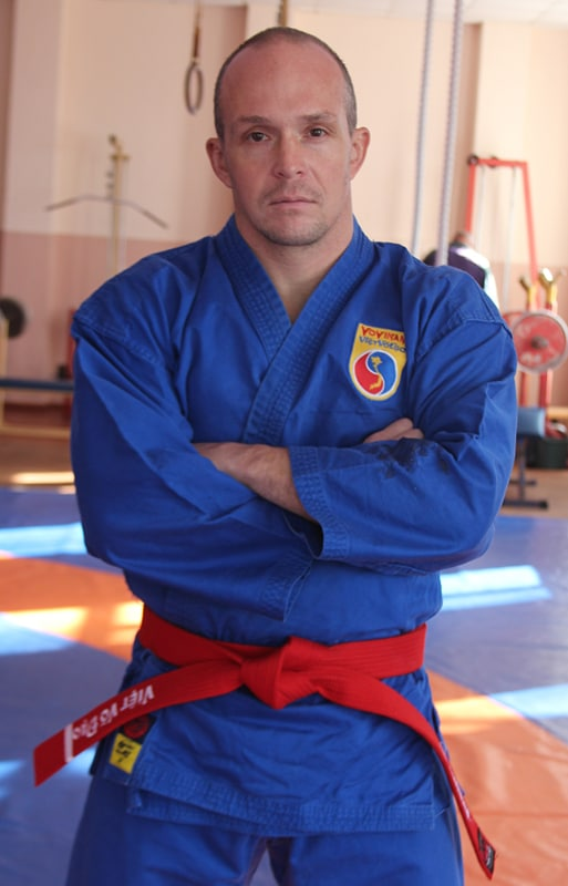 Maxim Vershina 5th Dan on Vovinam Viet Vo Dao. Master of Sports of the International Class in Wushu Sanda. Master of Sports in Judo. Actor. Stuntman.